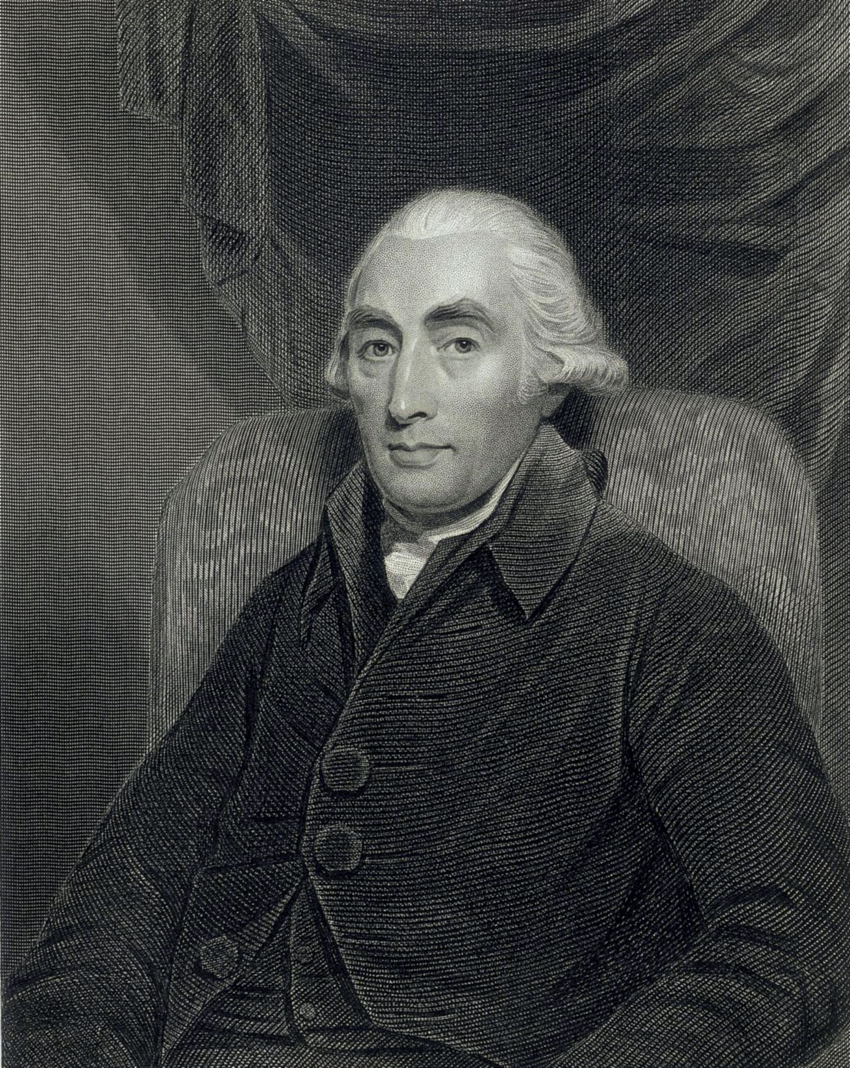 Scan of an old picture of Joseph Black